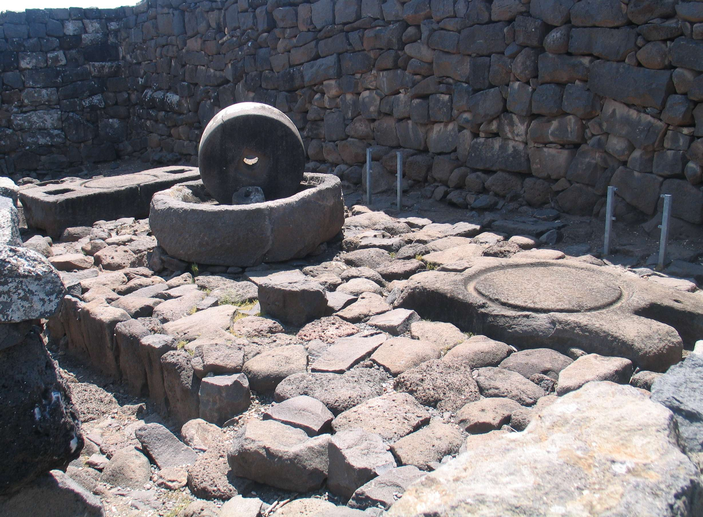 Korazim, Israel - oil press.